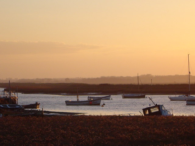 Sunset over River Alde Aldeburgh Suffolk. Looking south-west from the quay, over Home Reach towards Sudbourne Marshes